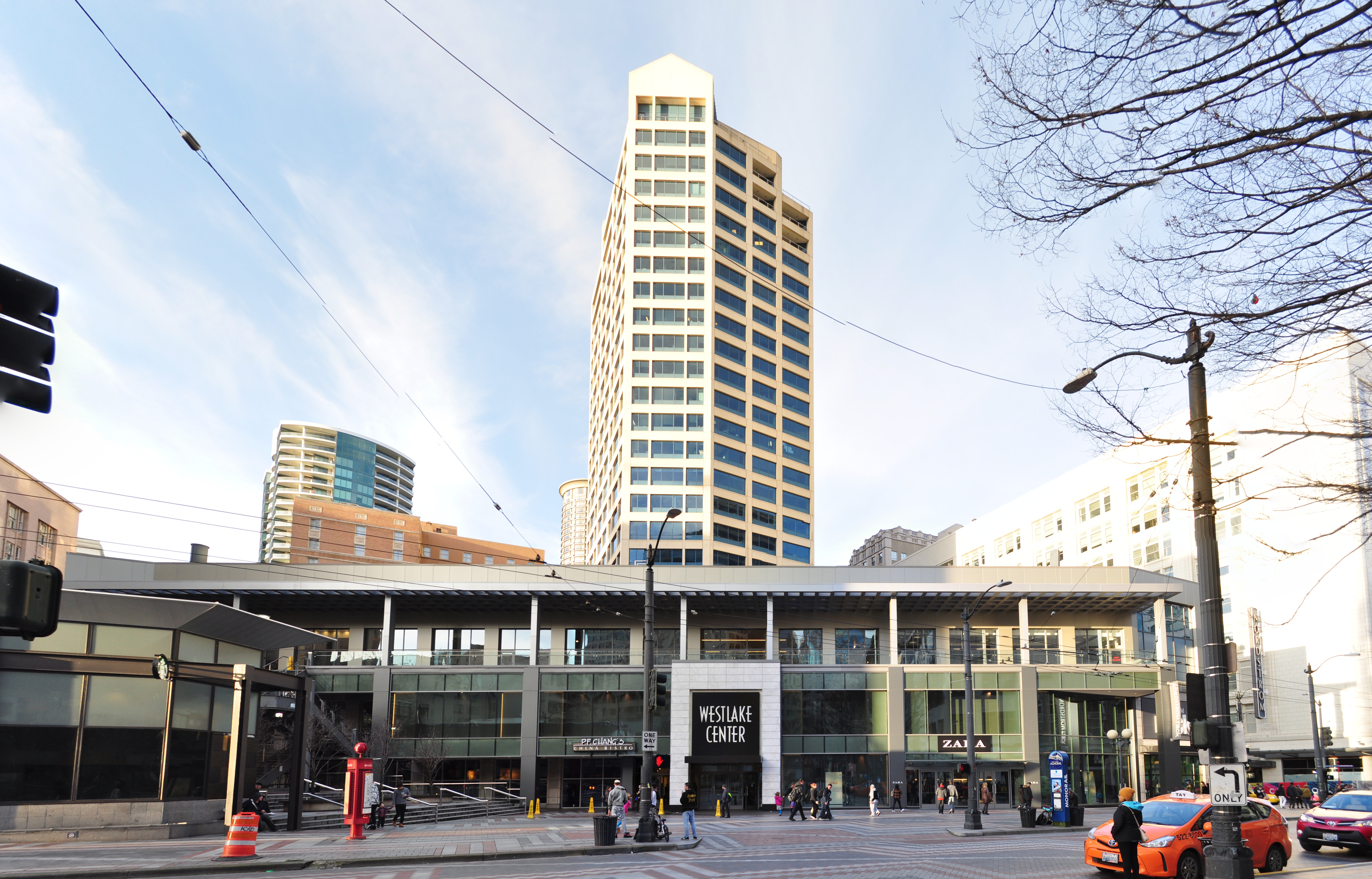 Westlake Center, Seattle, Washington, USA. This image was created with Hugin.